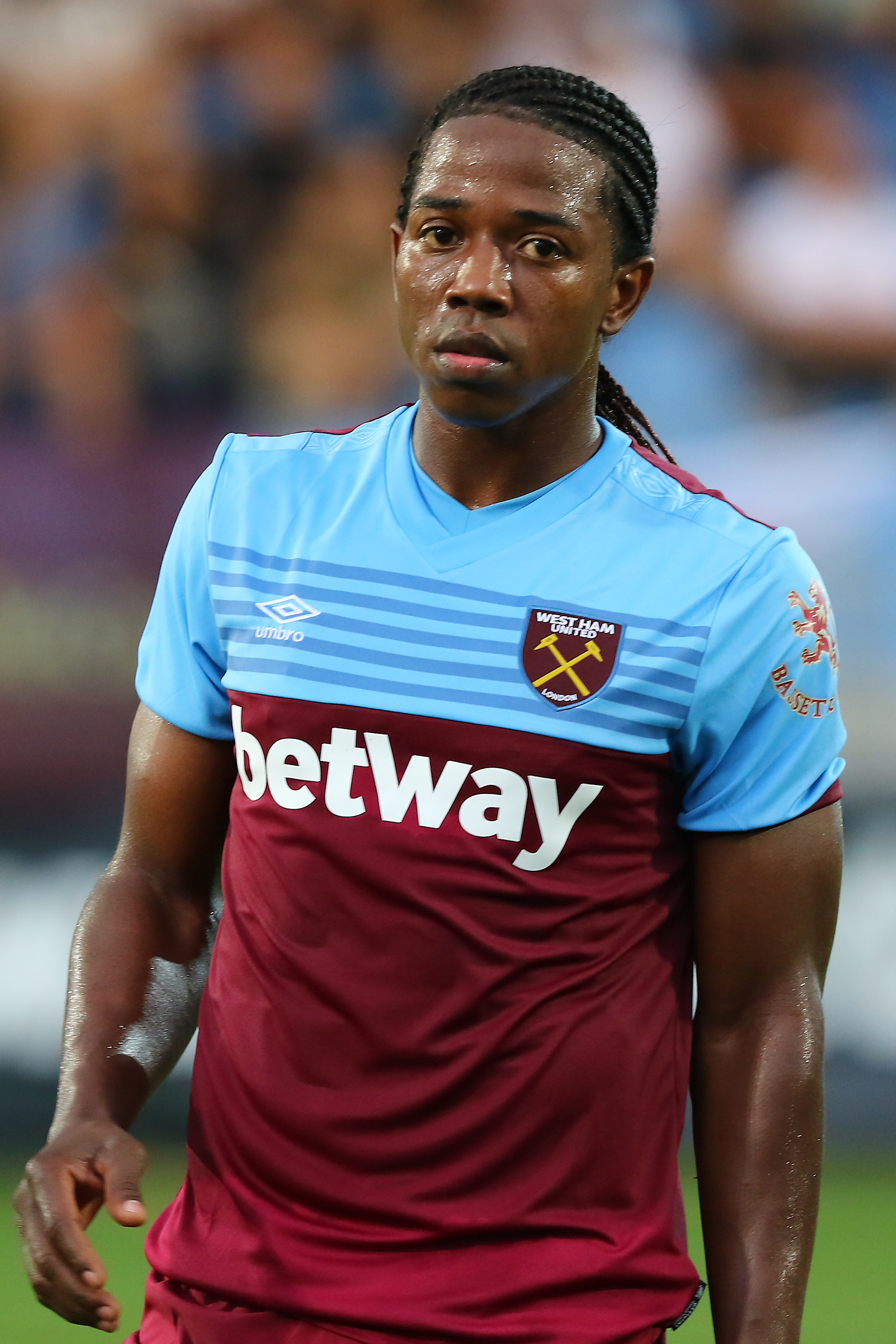 Friendly match Hertha BSC (blue-white shirts) vs. West Ham United (red-blue shirts) at 31-07-2019 3-5 (3-2) in the Sonnenseestadium in Ritzing. – The photo shows Carlos Sanchez Moreno (West Ham United).